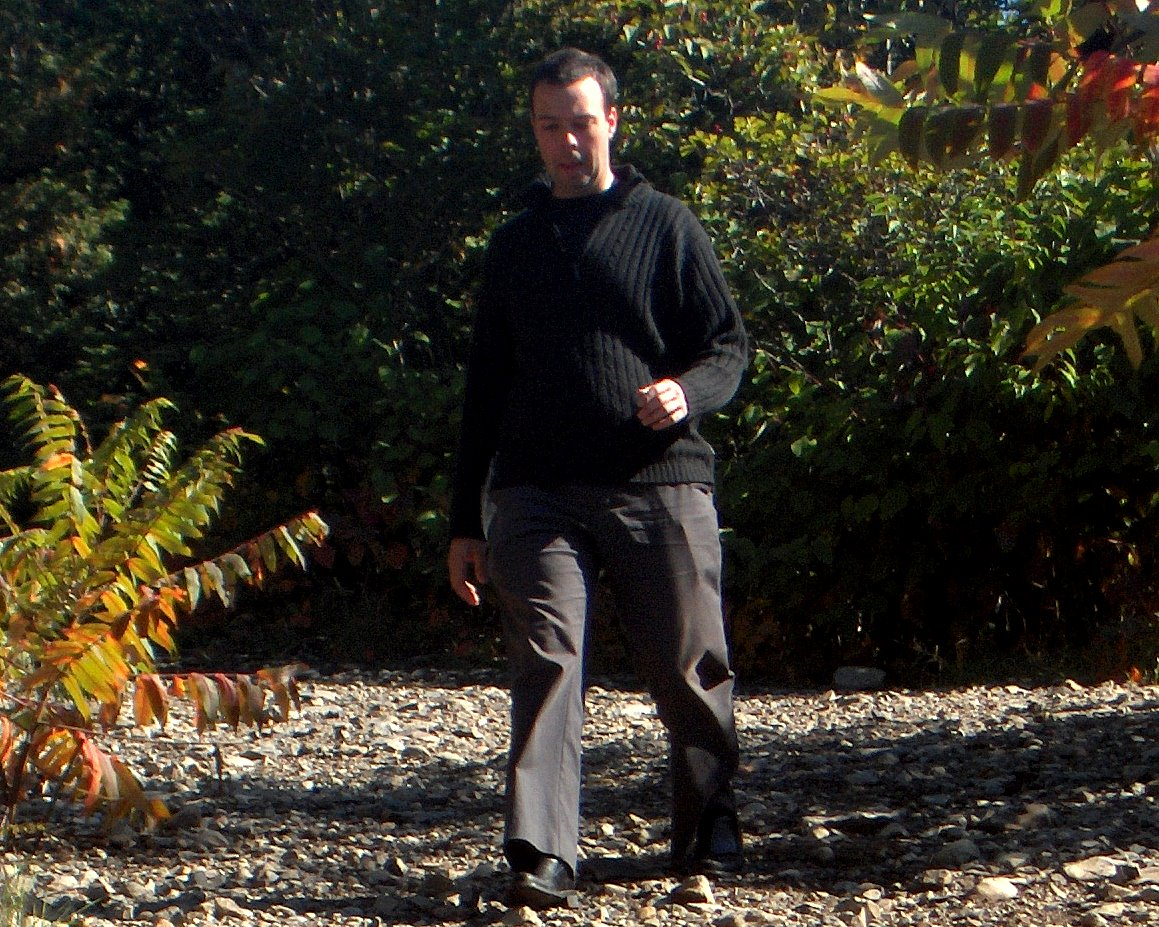 Walking down